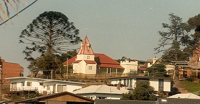 Courunga: The physcial prominence and landmark status of the tower house mirror the social and economic prominence of the Munn family in Merimbula in the period of its early development.